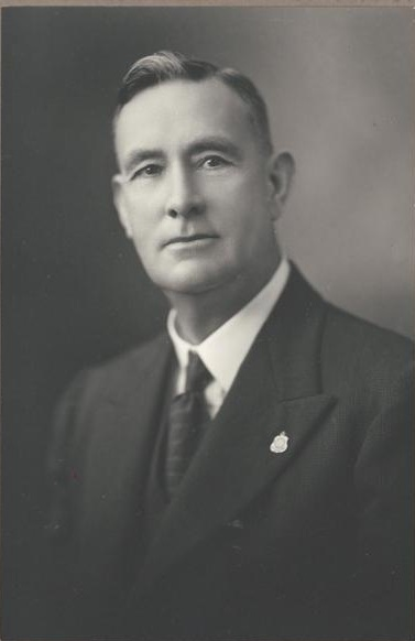 An image of Charles Latham, Western Australian politician and Federal Senator.